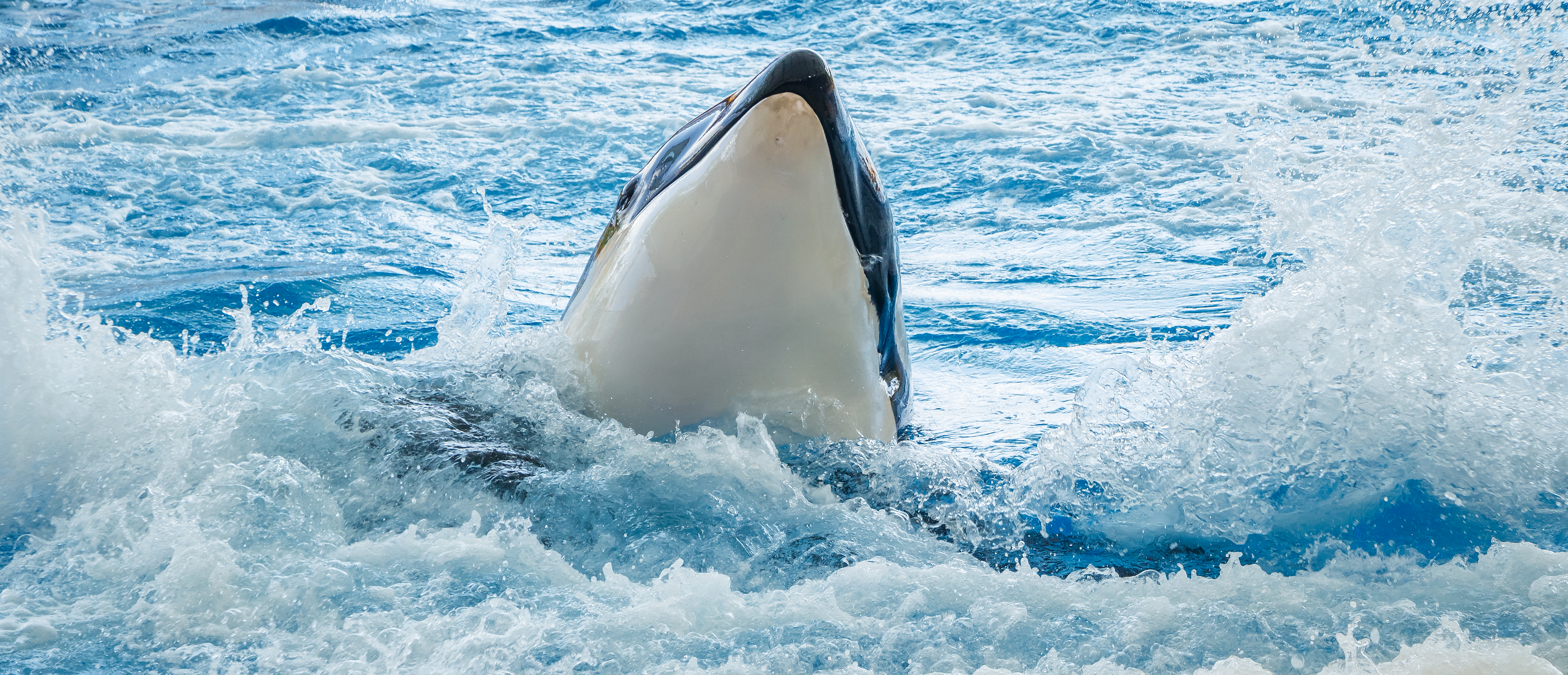 Orcinus orca (Linnaeus, 1758), Killer whale; Loro Parque, Tenerife, Canary Islands, Spain.